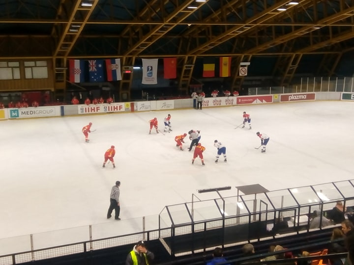 Serbia - China at 2019 IIHF World Championship Division IIA